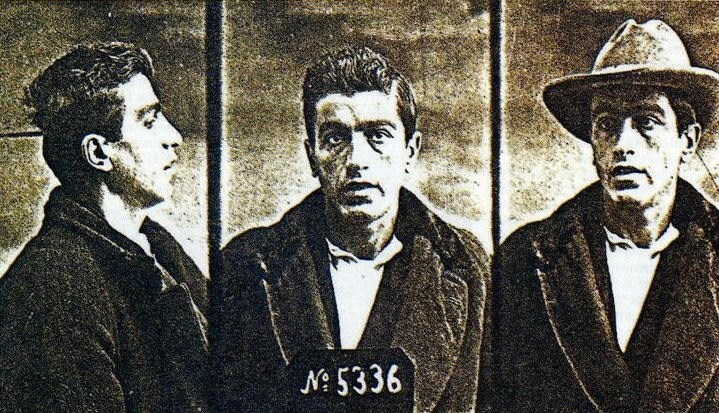 Portrait of Bulgarian and Yugoslav communist Metodi Shatorov